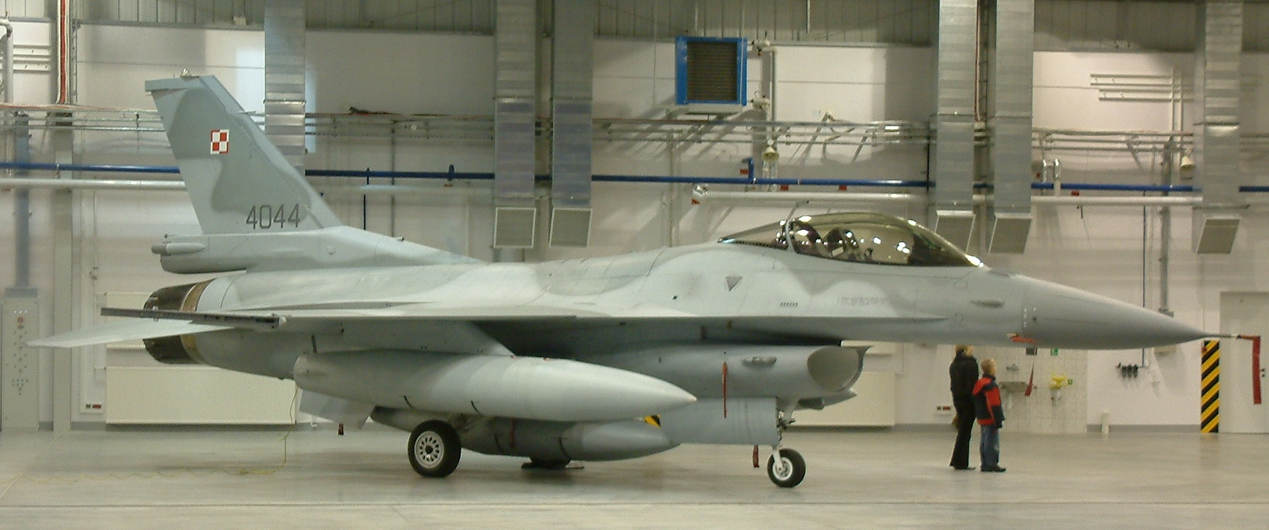 F-16C block 52+ #4044 of Polish Air Force, 31st Air Base Poznań-Krzesiny